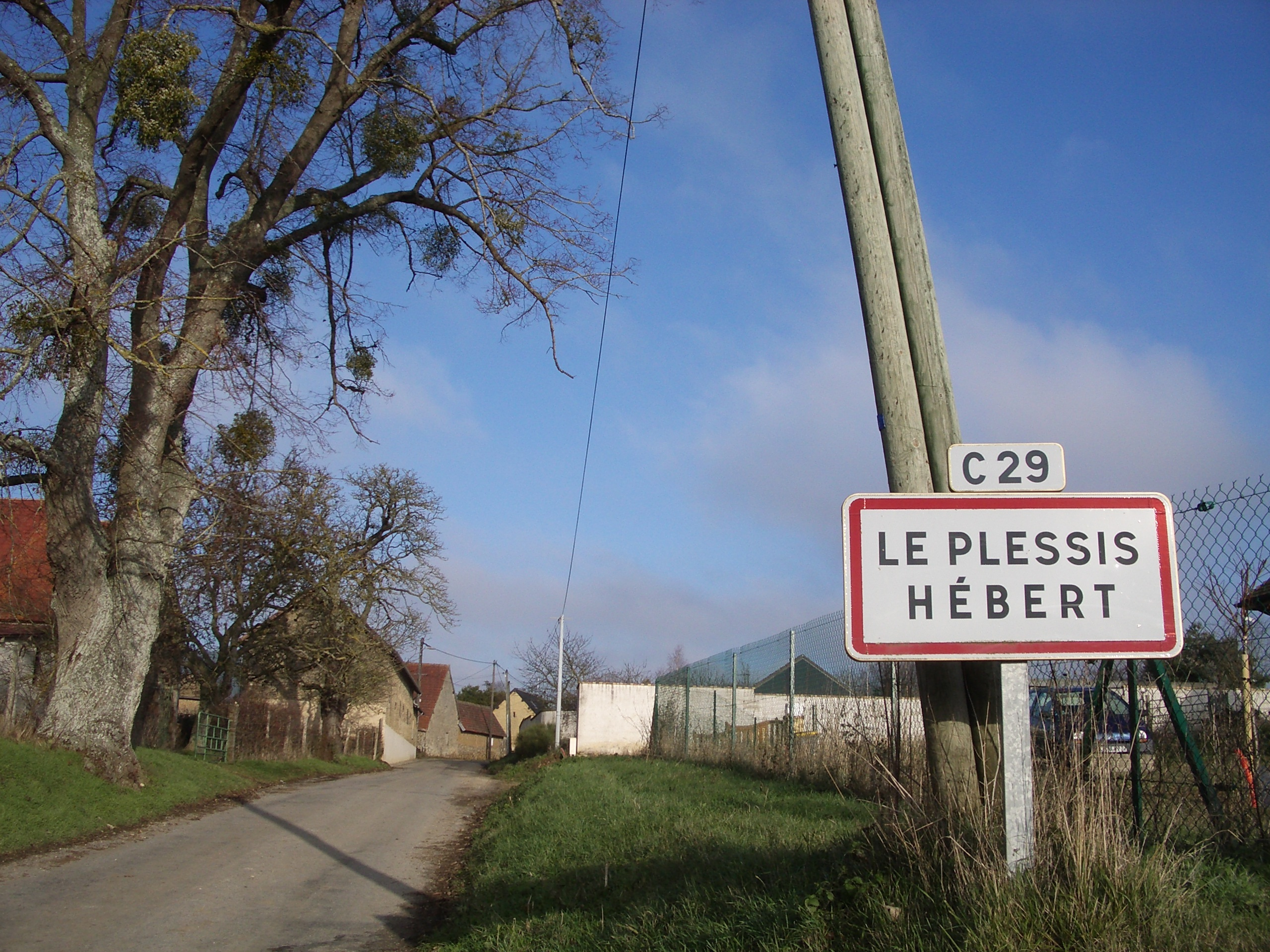 Le Plessis Hébert (Eure) village entrance